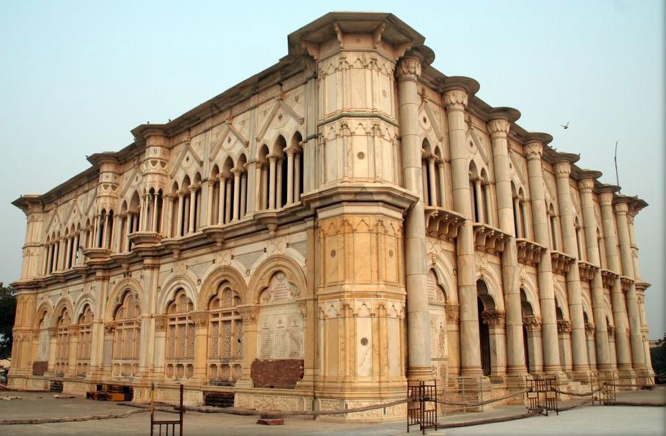 Dayal Bagh in Agra. Photo by Ian Sewell.